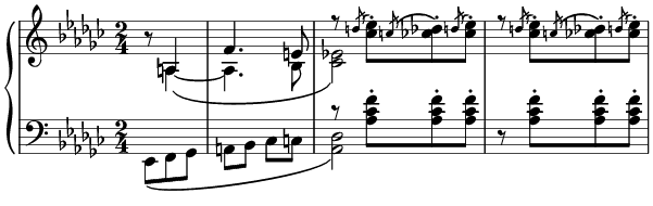 The quotation of Tristan und Isolde in Claude Debussy's "Golliwog's Cakewalk" in Children's Corner. Image made with GNU LilyPond and released into the public domain. Note that there is a missing slur in the right hand which should run from the A over the F and E natural to the E flat at the beginning of bar 3. This has been omitted because it's just not that easy to get Lilypond to show it—I'll probably have a go at fixing it myself later; if anybody else wants to do it in the meantime, that's great.